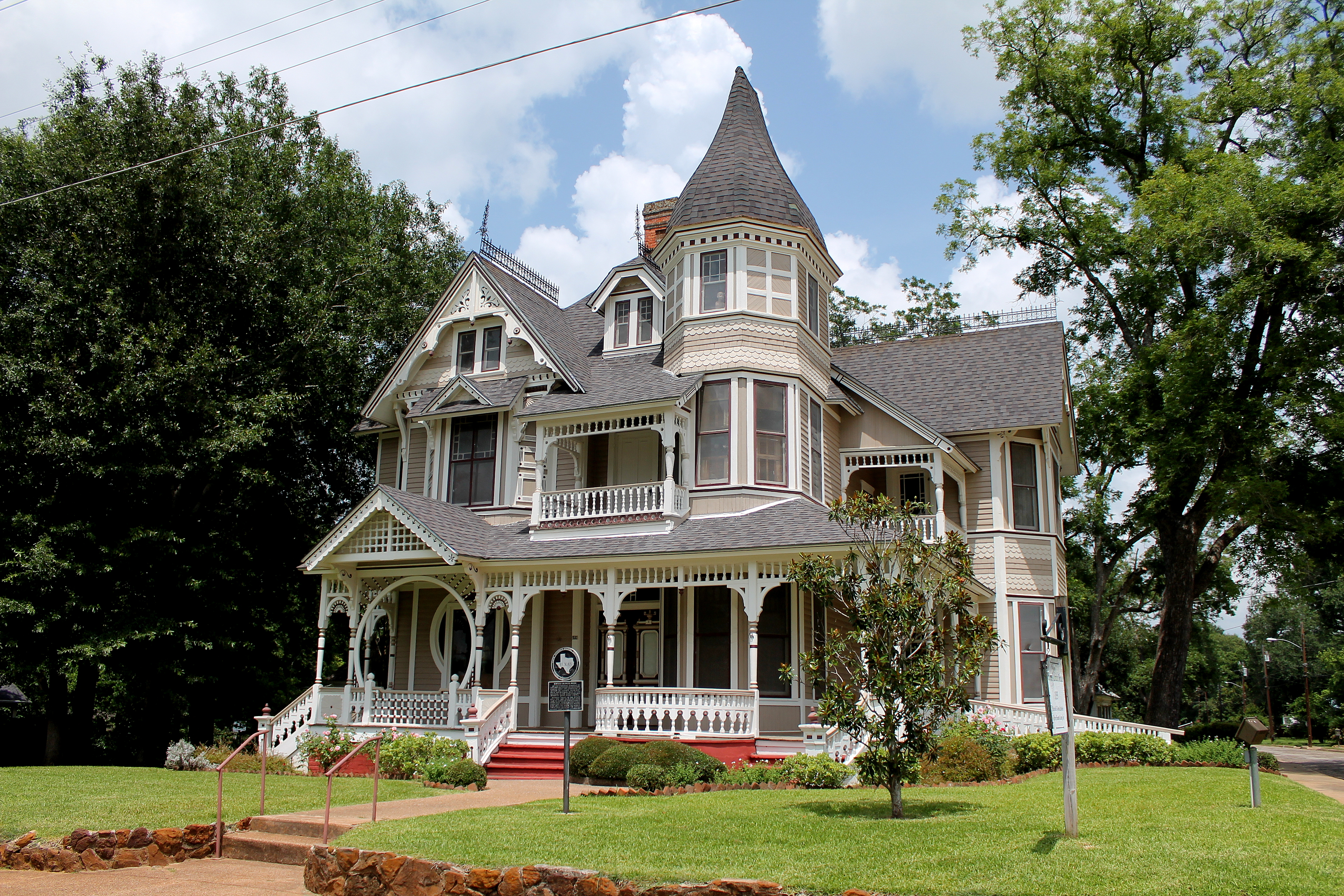 Downes-Aldrich House in Crockett, Texas